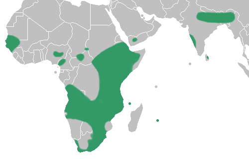 Satyrium distribution map